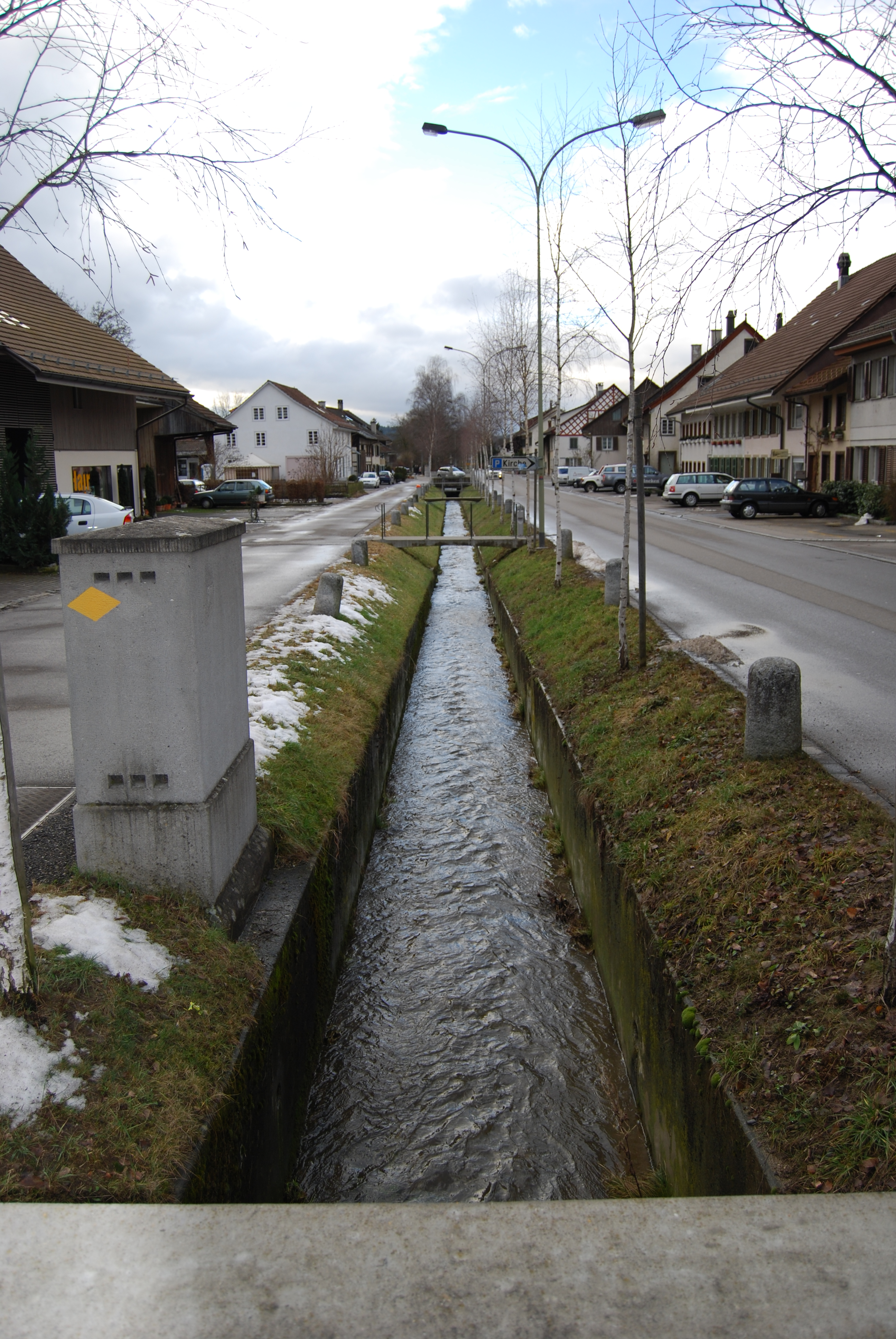 Village river Wiesenbach at Wiesendangen, canton of Zürich, SwitzerlandEsperanto: Vilaĝa rojo Wiesenbach en la centro de Wiesendangen, Kantono Zuriko, Svislando